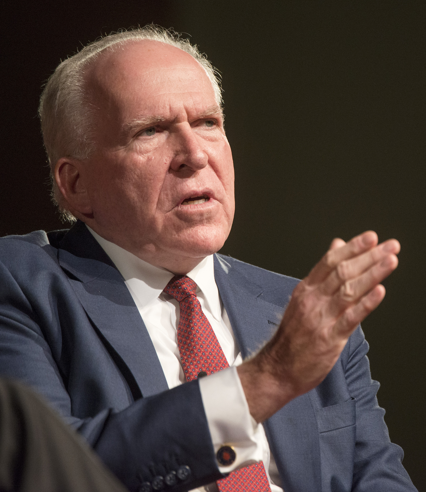 On Wednesday, Oct. 24, 2018, the LBJ Presidential Library presented a conversation with former CIA Director John Brennan and Mark K. Updegrove, president and CEO of the LBJ Foundation. The evening was co-hosted by the Intelligence Studies Project at The University of Texas at Austin.